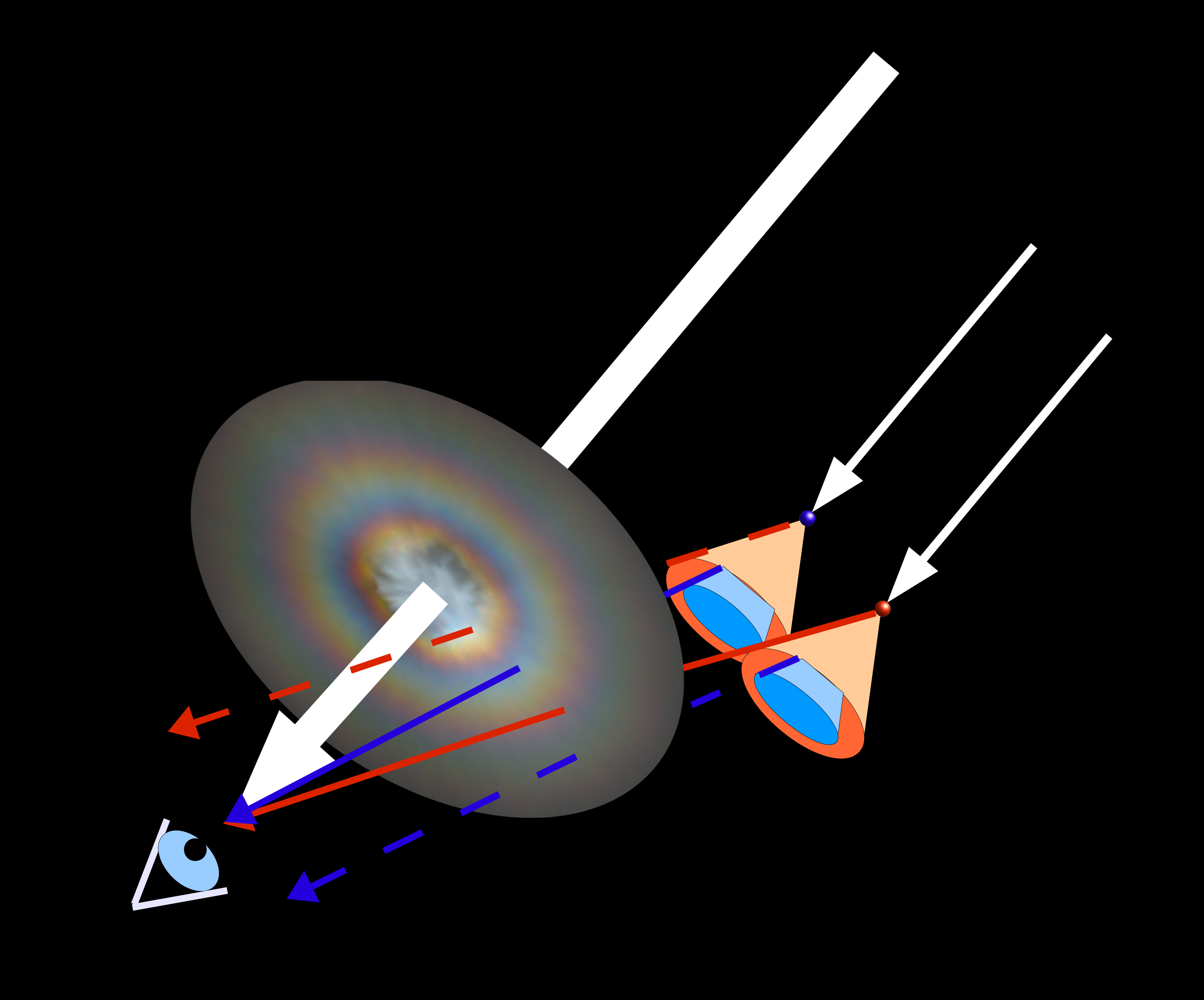 Corona around moon or sun resulted from light diffracted by waterdrops in the clouds. From each cone a person only views the light which reaches his eye. As red light has a greater diffraction angle than blue light, the red light one sees comes from a drop in a greater distance from the center of the corona than the blue light. So the red ring has a greater radius than the blue ring.